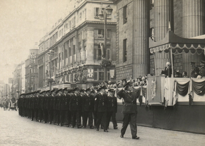 Recruits of the Garda at An Tóstal 1954, outside the General Post Office, Dublin, Ireland.